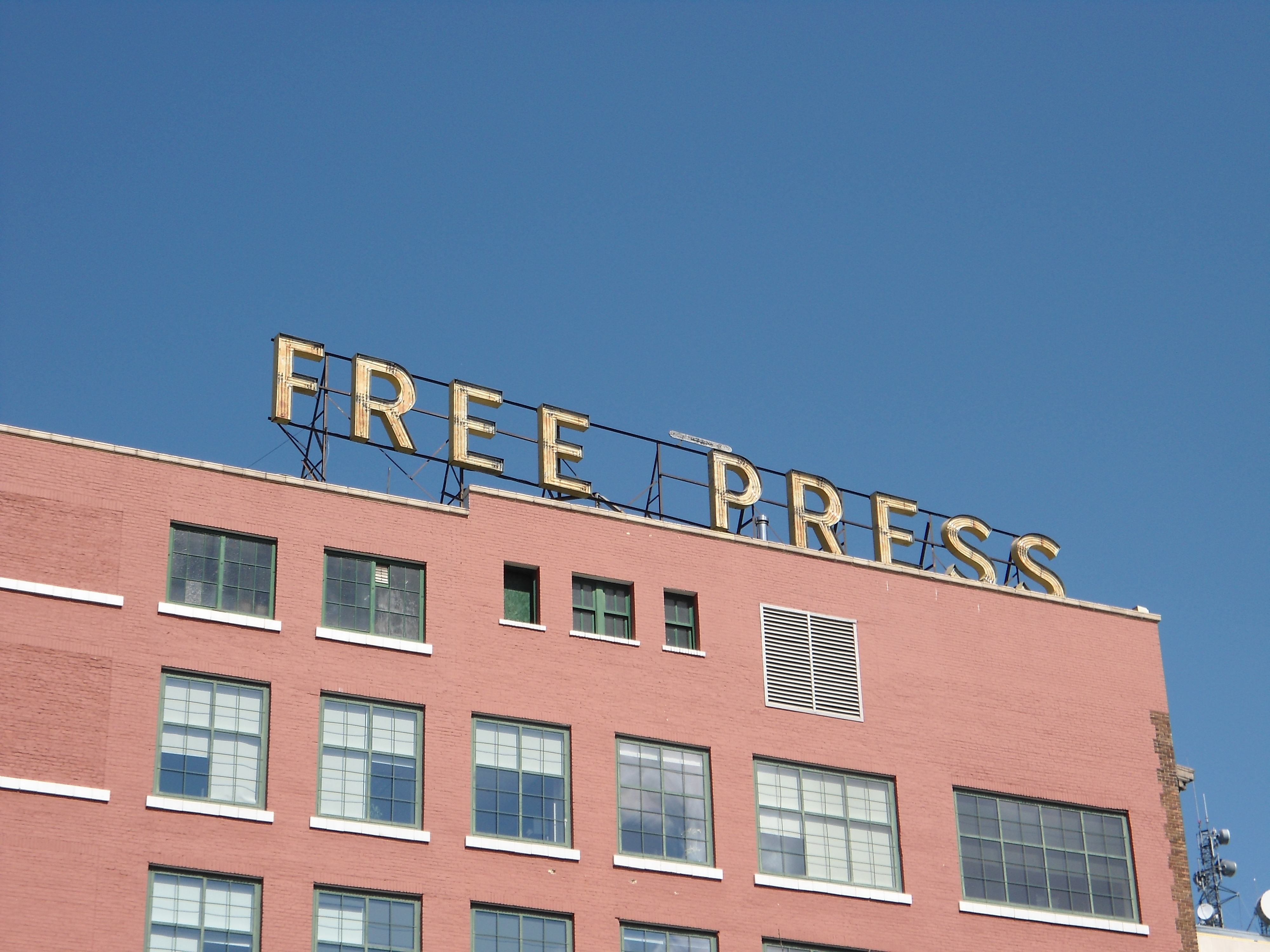 Taken from the promenade behind Portage Place mall